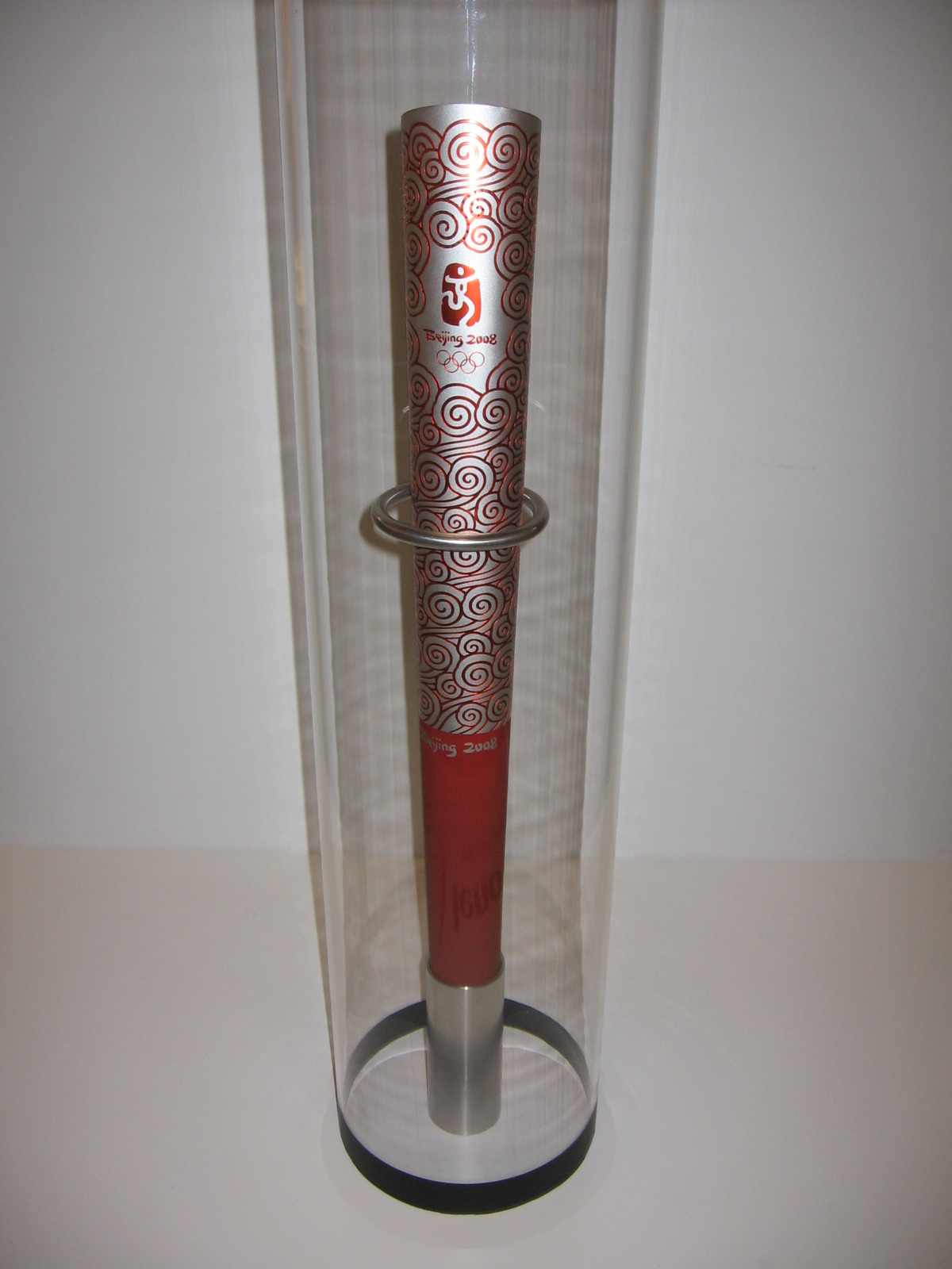 Official Olympic Torch of the 2008 Summer Olympics on display in Vilnius on February 16, 2008. The Torch was displayed in Vilnius on February 14-18, presented by Lenovo Group, the official Olympic Torch designer.